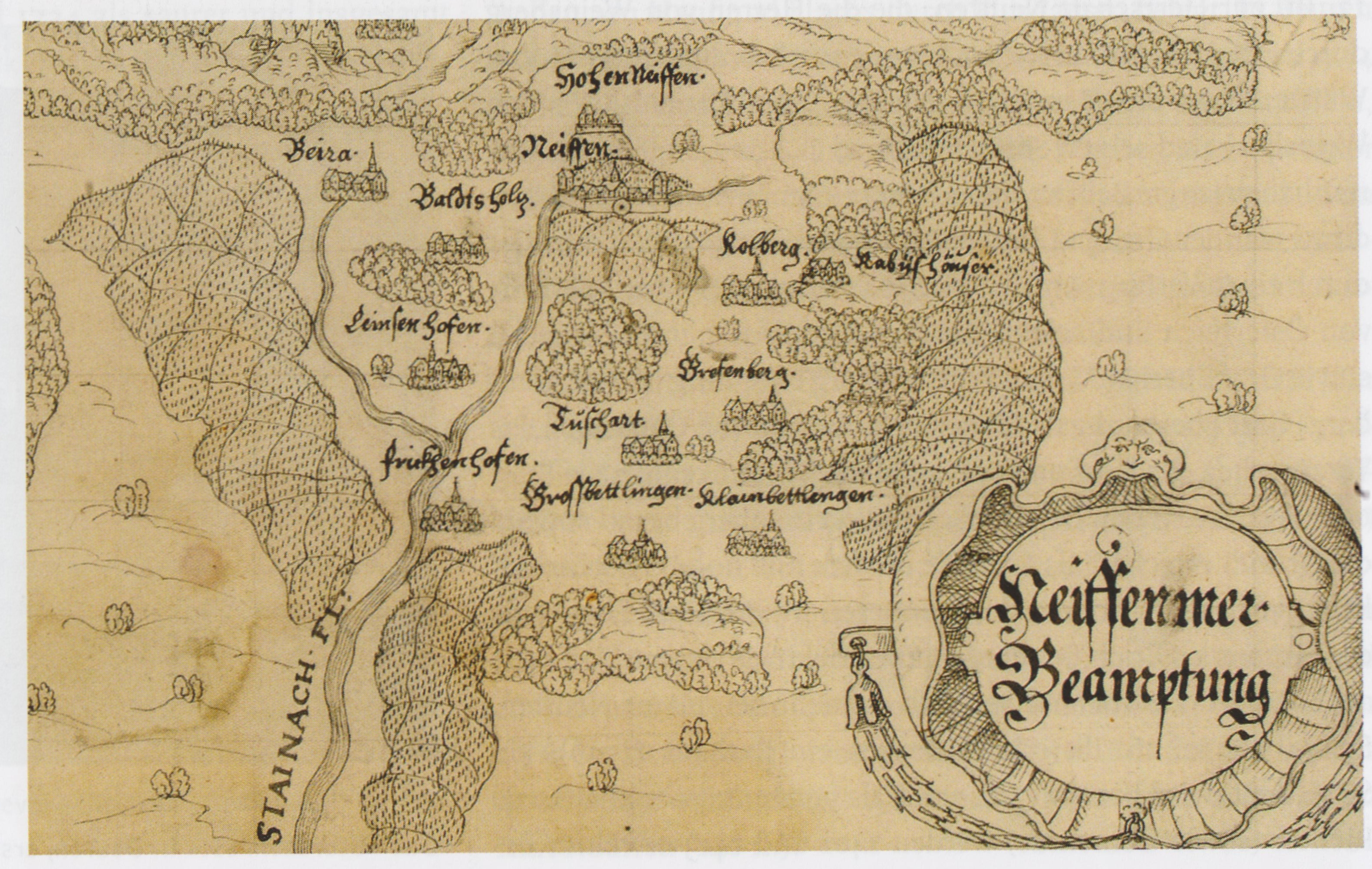 Map of the Neuffen district, presumably drawn by Heinrich Schickhardt, about year 1600